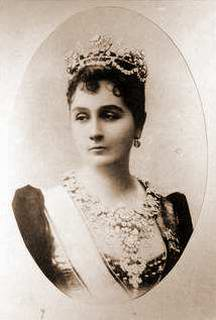 Khedive Amina Naciba wife of Tewfik Pasha